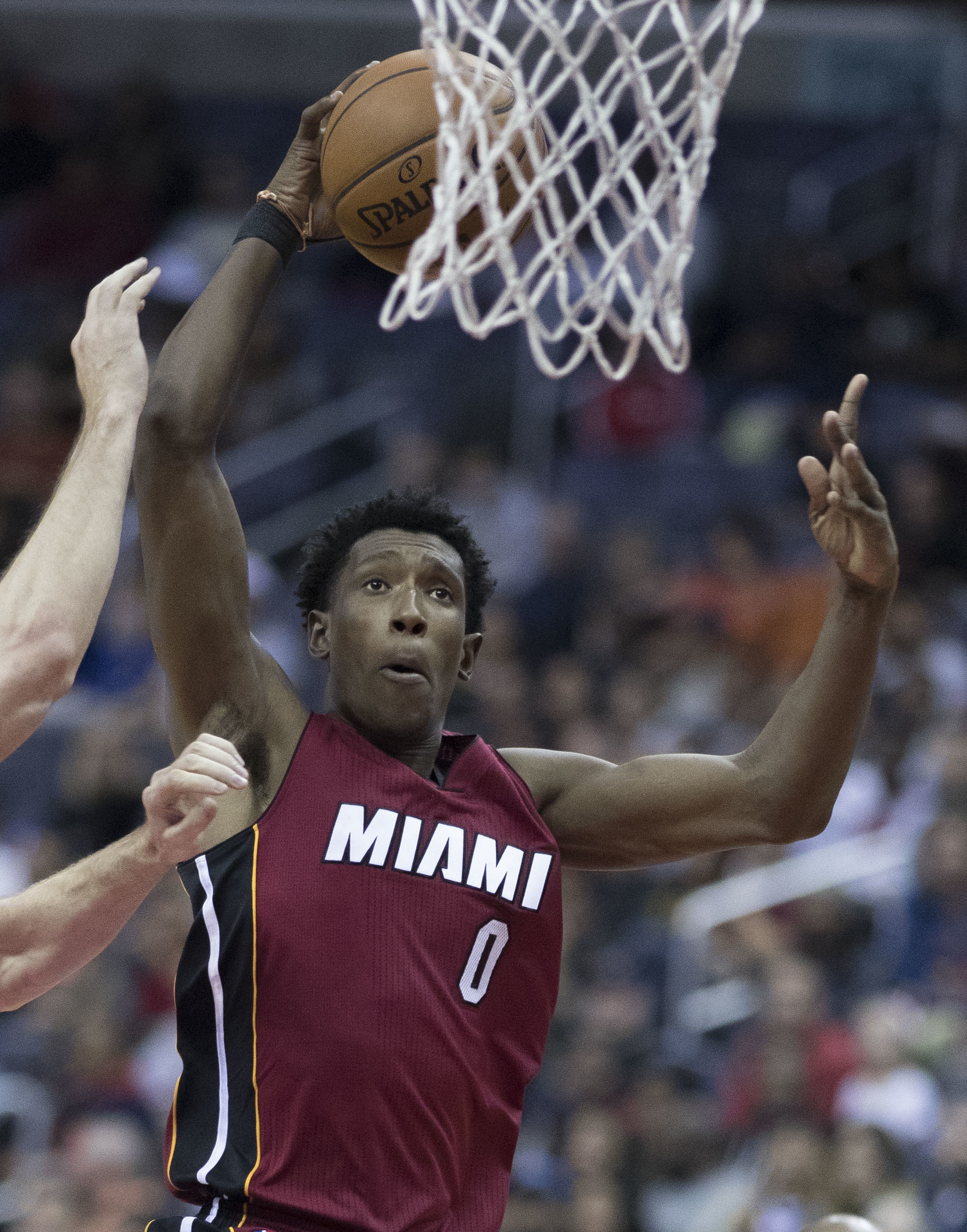 Heat at Wizards 11/19/16